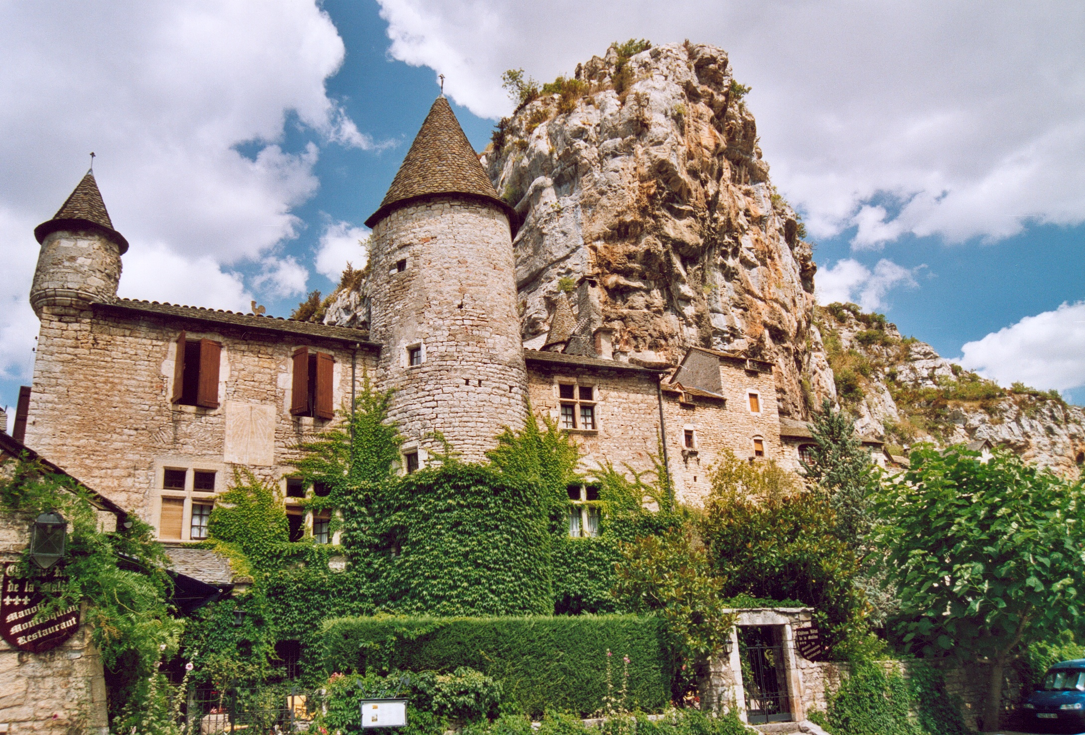 The castle Manoir de Montesquiou in La Malène in the département Lozère in France was built in the 15th century.